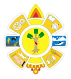 Emblem of the Government of Ocotlán, Jalisco.